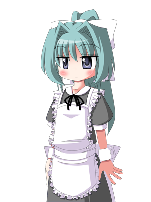 Original character